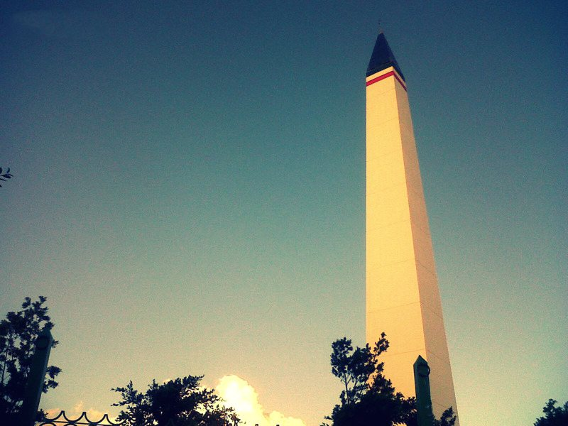 Obelisco Actopan